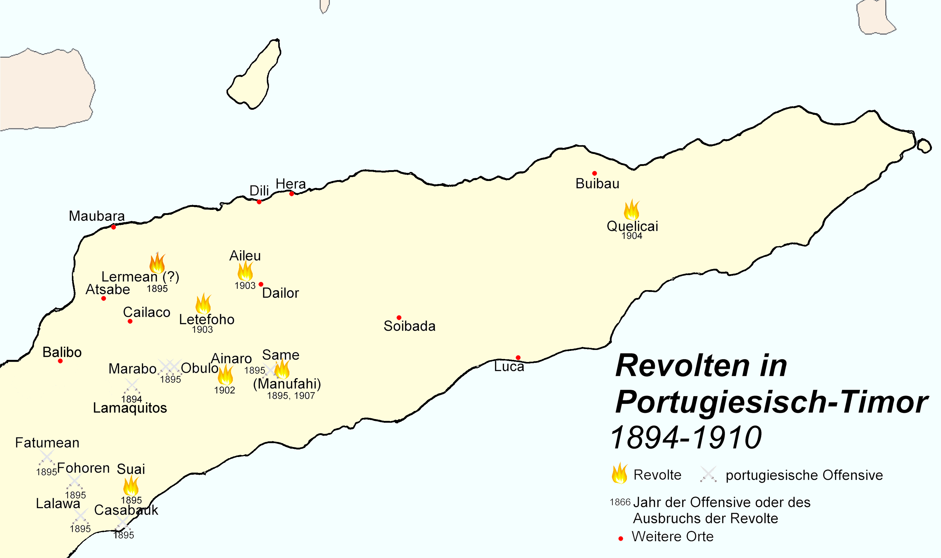 Revolutions against Portuguese in Timor between 1894 and 1910